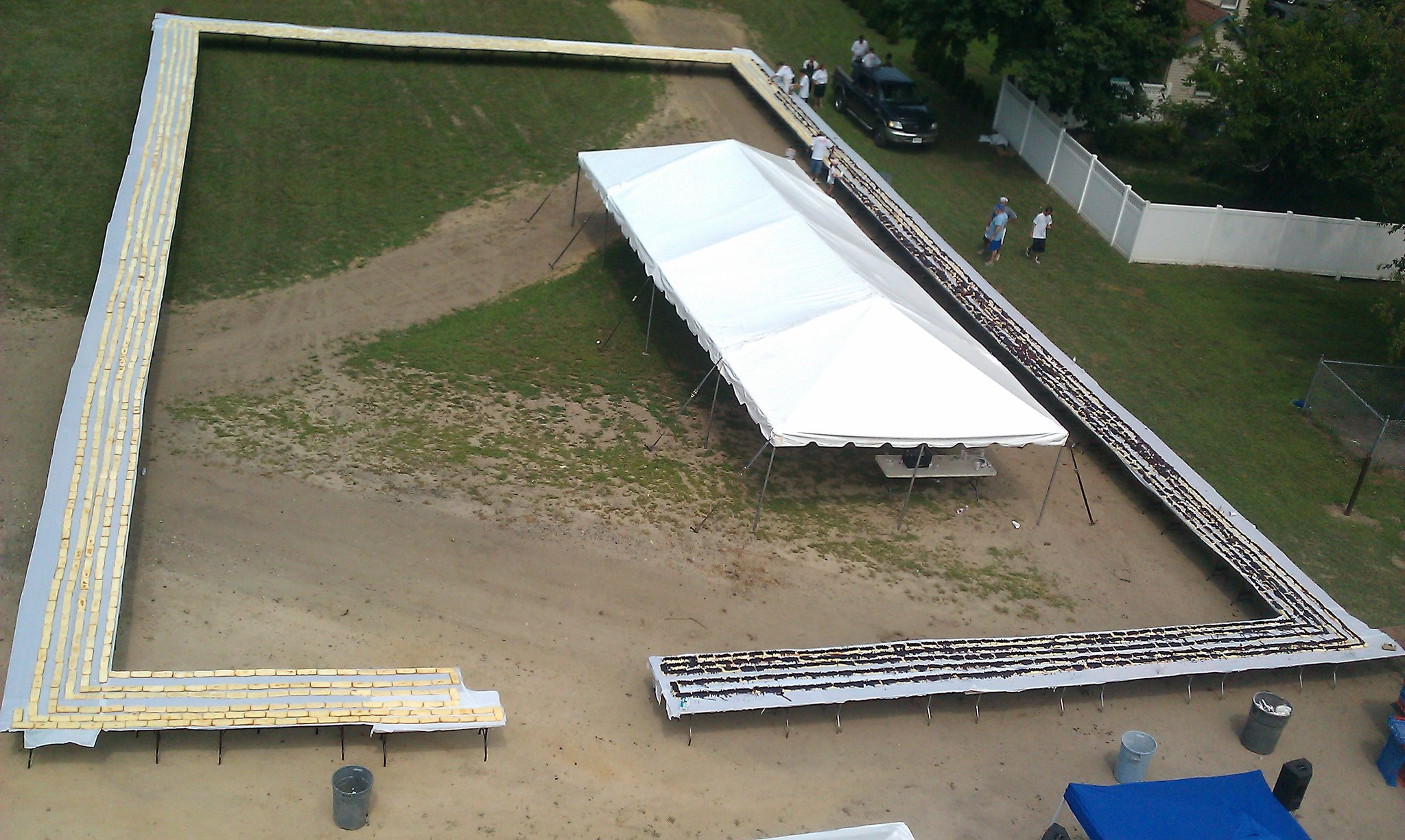 On July 24, 2011, Ricca's Italian Bakery set a Guinness World Record for the Longest Line of Cakes topped with fresh blueberries donated by local farmers. Director of the Longest Line of Cakes World Record Tony Ricca|Tom Ricca Professional Wrestler and founder of Cannoli World, LLC.